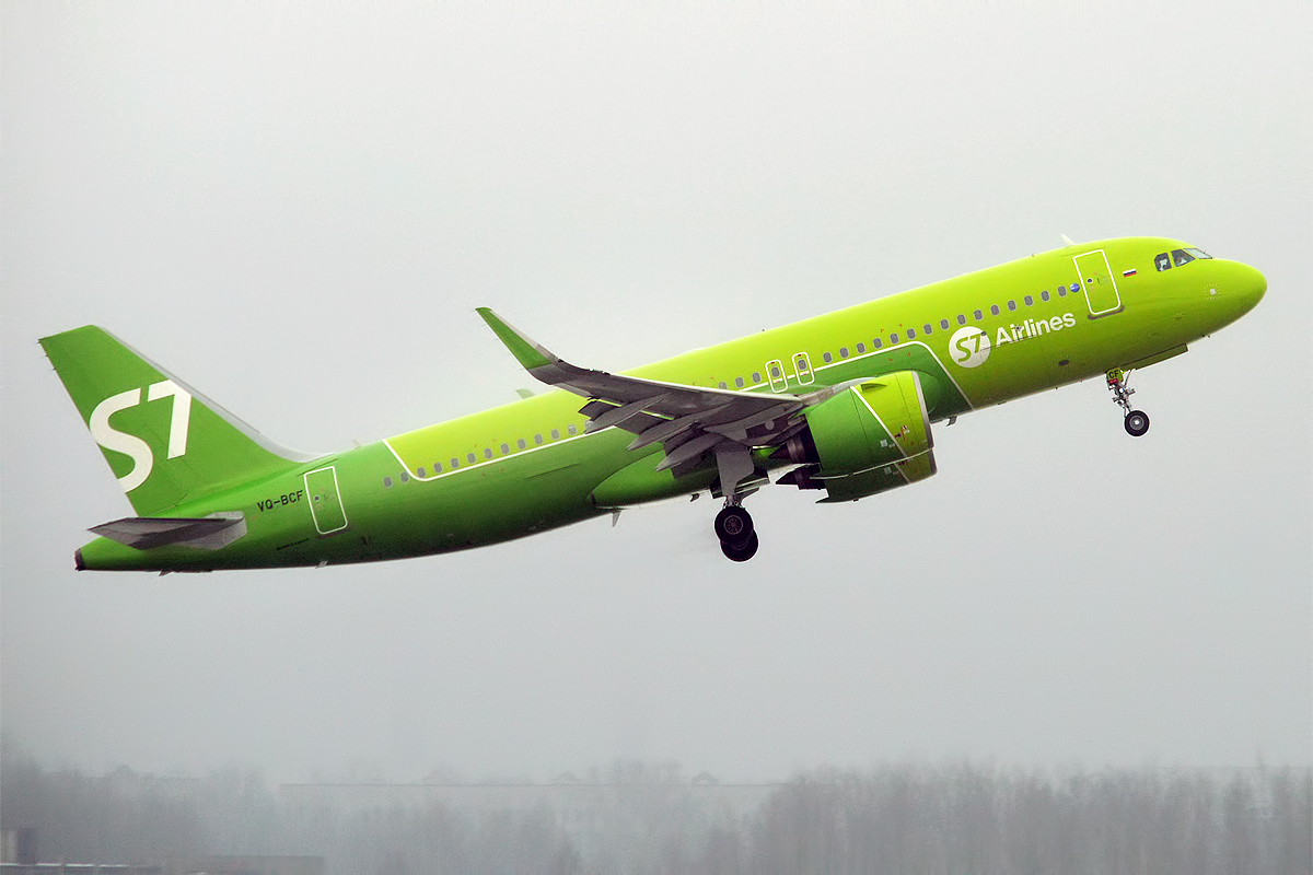 S7 Airlines, VQ-BCF, Airbus A320-271N